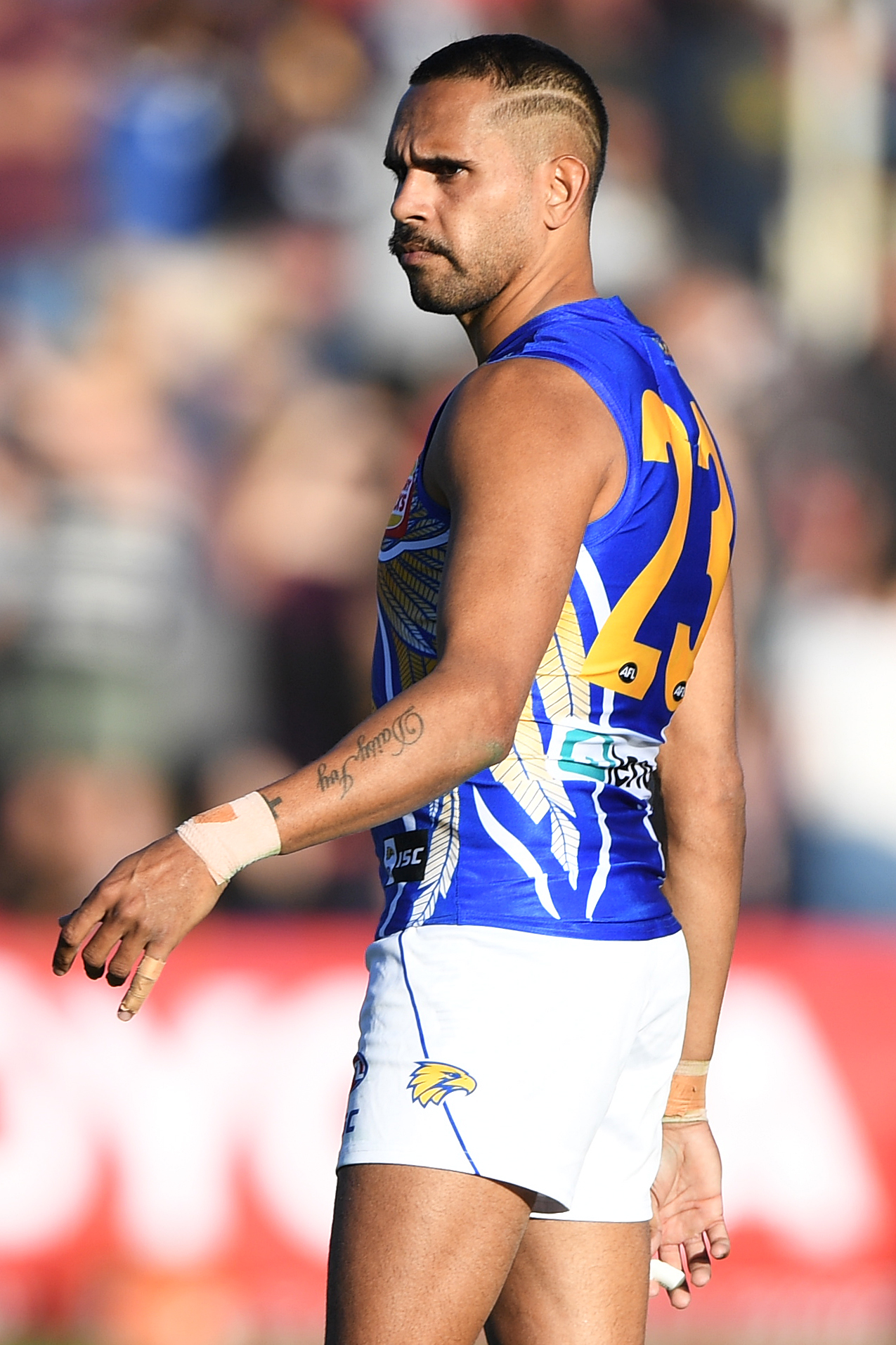 Lewis Jetta of West Coast during the 2019 AFL round 18 match between Melbourne and West Coast at Traeger Park on Sunday, 21 July 2019 in Alice Springs, Northern Territory.